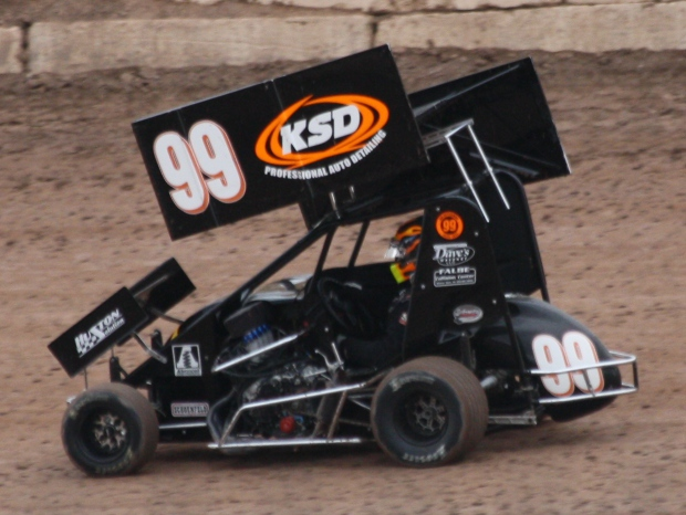 A 600 microsprint car at the 141 Speedway Fall Classic.